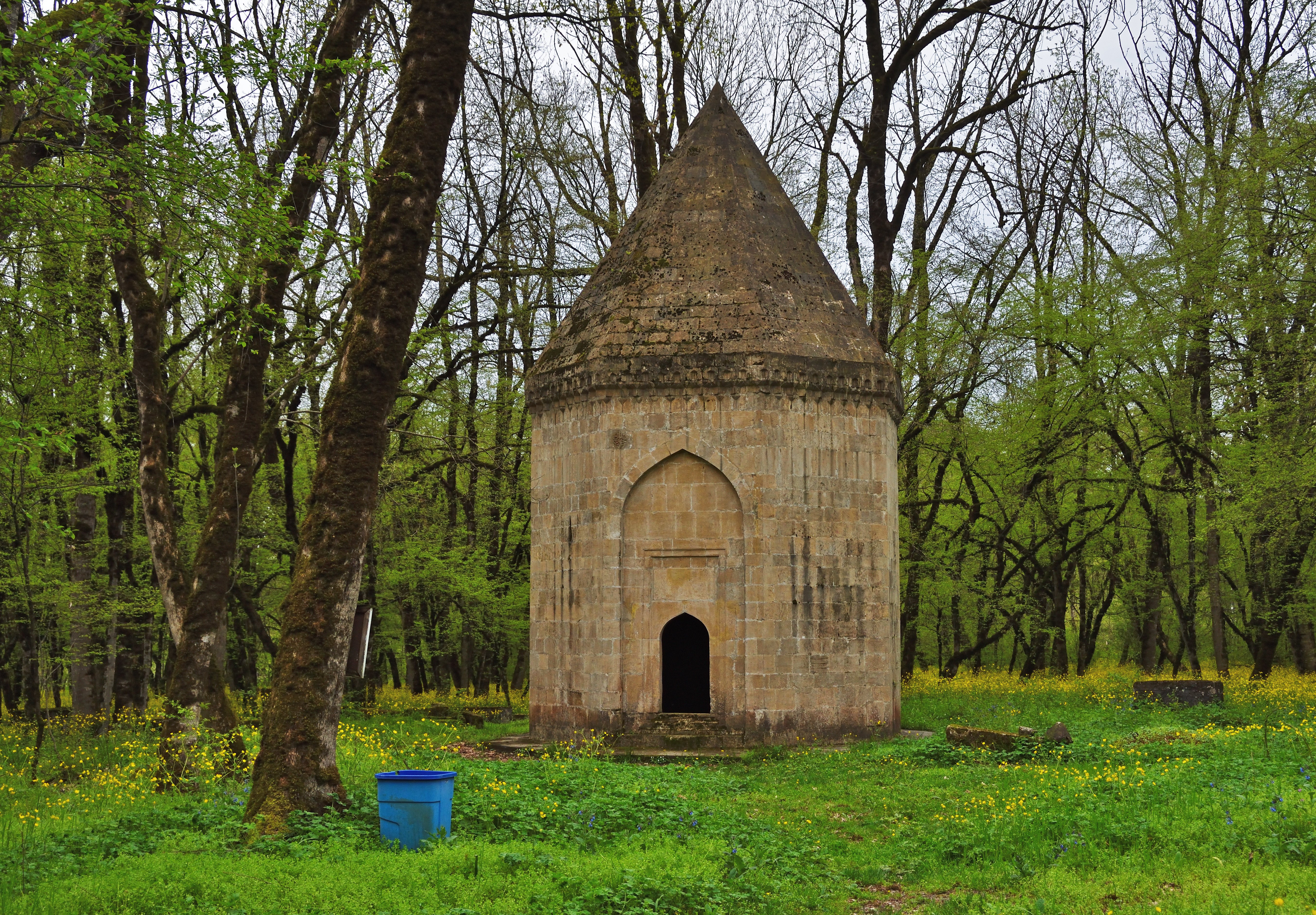 Tomb of the 16th century, Hazra village, Qabala district, Azerbaijan